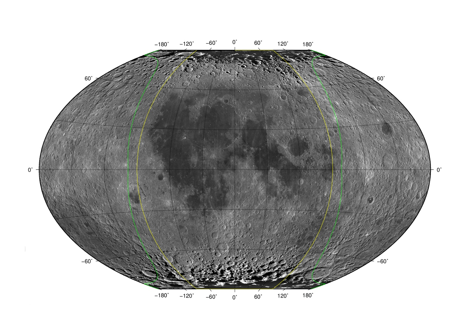 Theoretical extent of visible lunar surface due to libration in Winkel Tripel projection using Grass GIS 6.4.3 and GMT 4.5.6